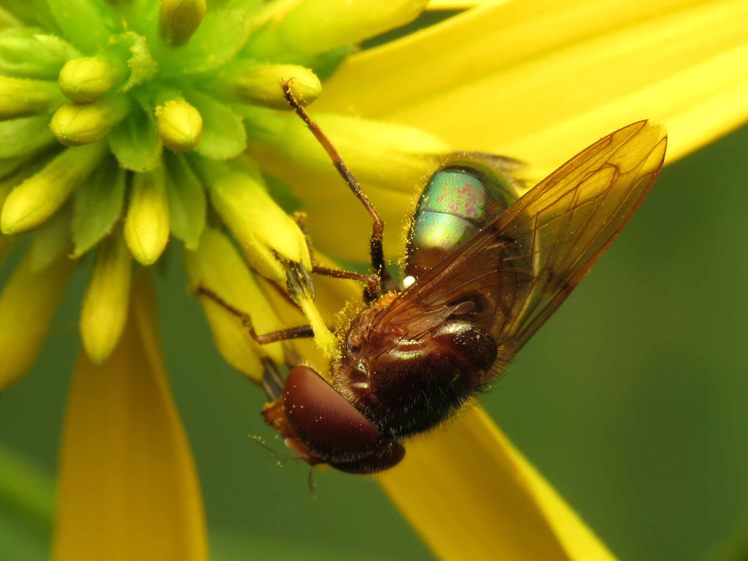 Copestylum vesicularium. Rock Creek Park, Washington, DC, USA